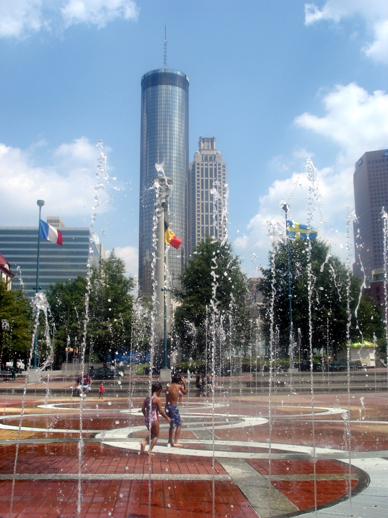 This shows the Fountain of Rings at Centennial Olympic Park in Atlanta, Georgia. The tall cylindrical building in the background is the Westin Peachtree Plaza, one of the United States' tallest hotels.